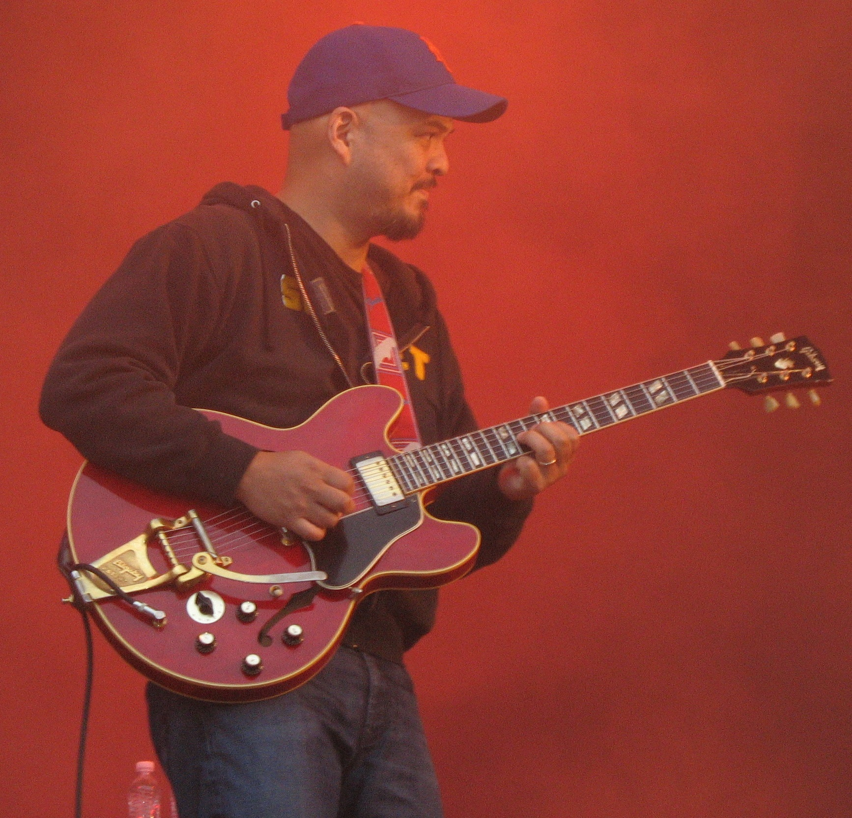 Joey Santiago performing with Pixies at "Where the action is" in Stockholm, Sweden.